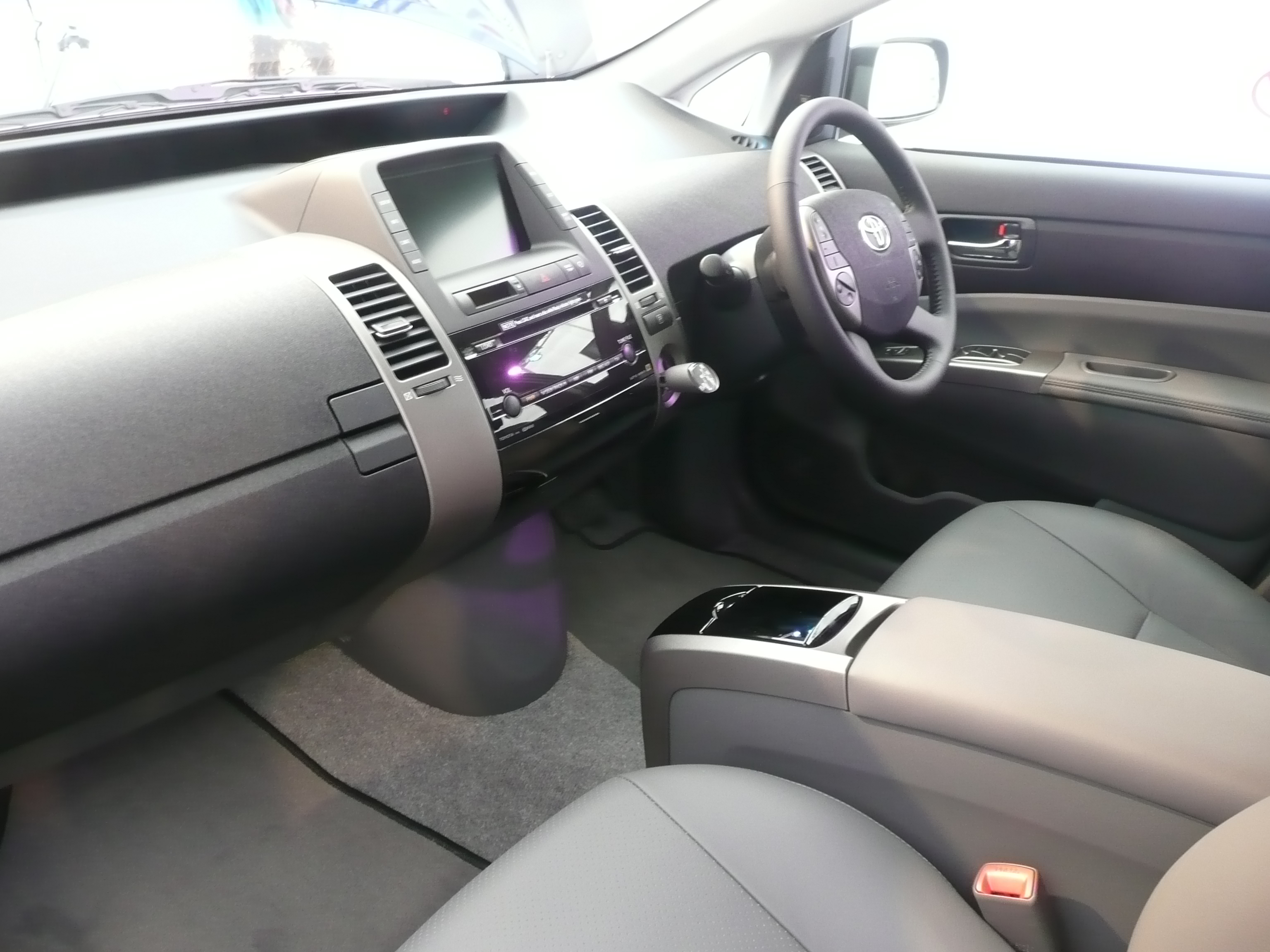 2008 Toyota Prius (NHW20R) liftback. Photographed at the 2008 Australian International Motor Show, Sydney, New South Wales, Australia.